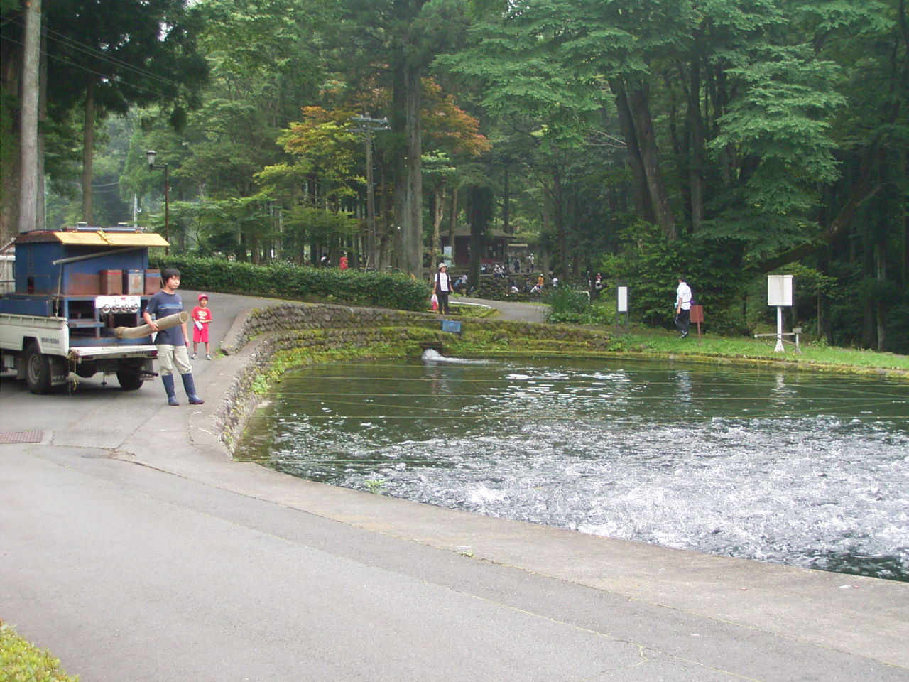 Fuji trout growing field in Fujinomiya-city Shizuoka Japan